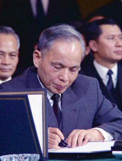 Nguyễn Duy Trinh: Foreign Minister of North Vietnam (1965-80)